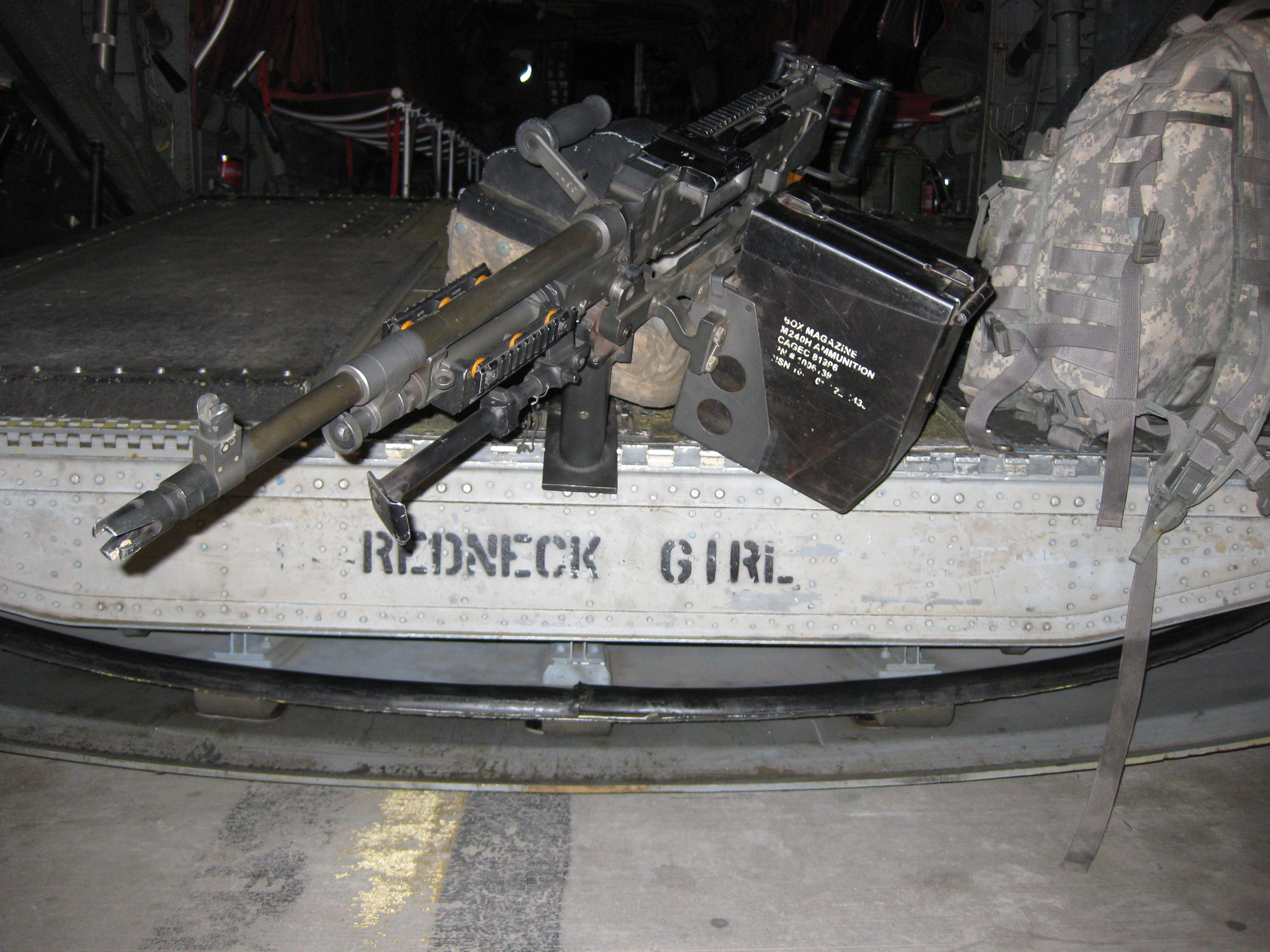 M240H Mounted into the back ramp of a CH-47 Helicopter At Bagram Airbase.